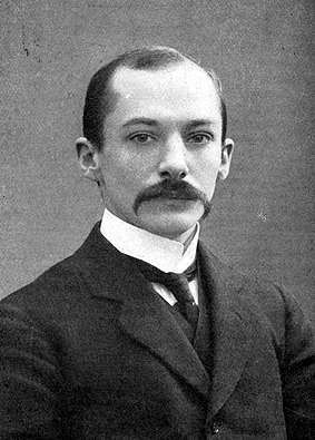 Parliamentarian from the Netherlands